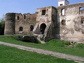 The old city of Kaptol, Croatia